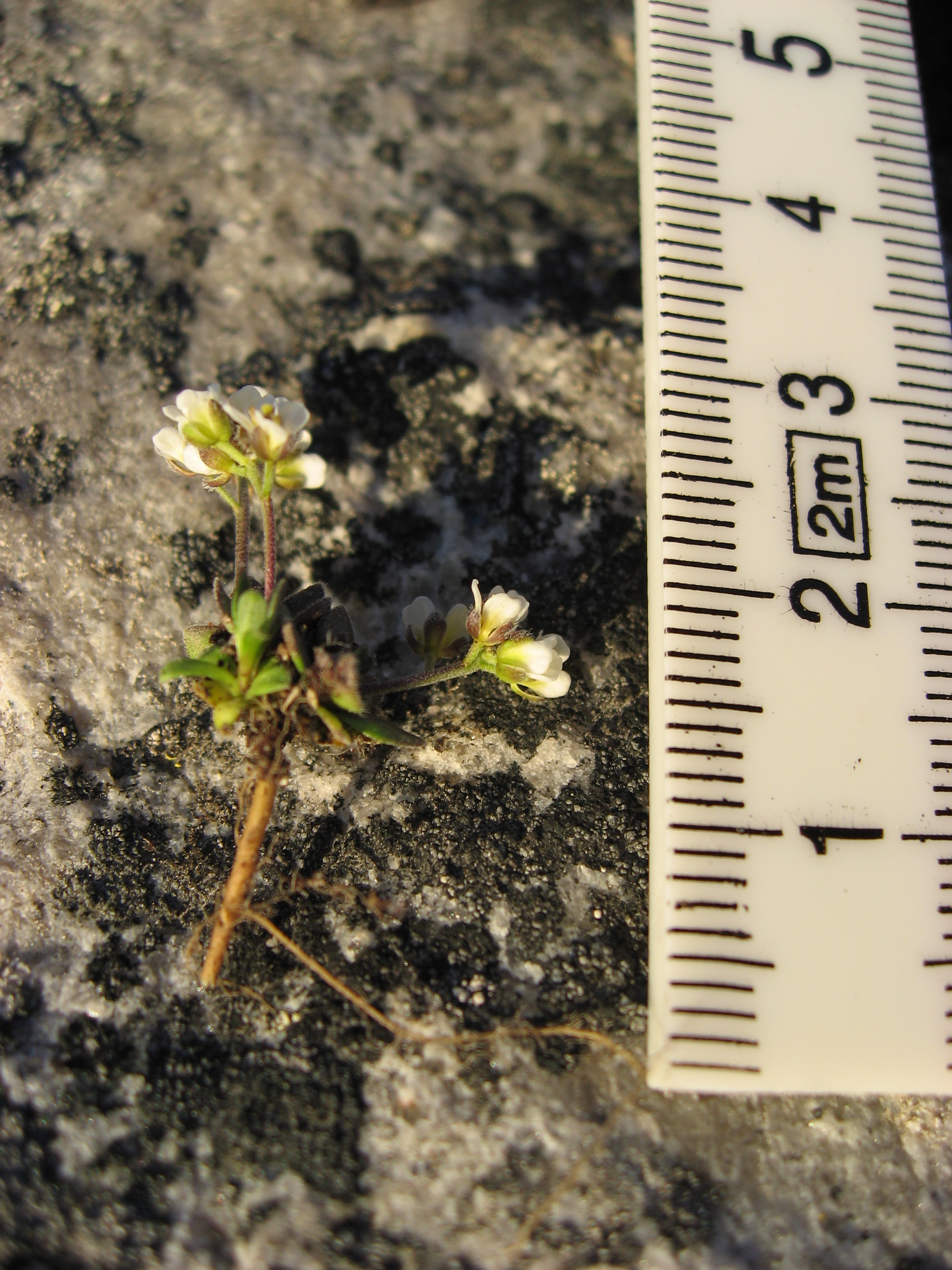 Draba nivalis (Snow Draba) photographed near Upernavik, Greenland. The plant has been taken up on this photo and placed along a centimeter scale to illustrate that it is only about 15 mm long. Observed together with Vaccinium uliginosum and Cassiope tetragona. Identified by Ole B. Lyshede, lic. scient. (Biology).